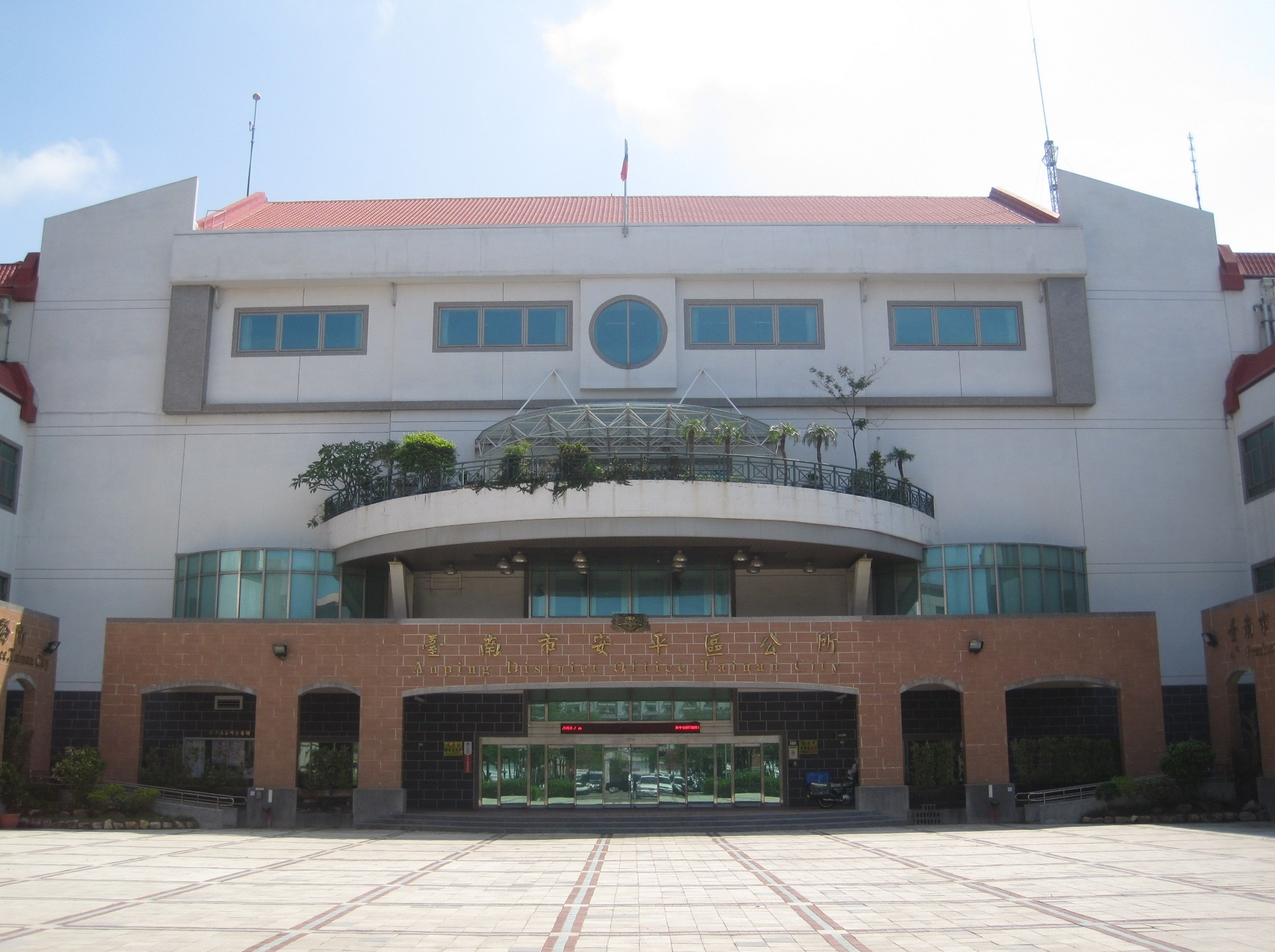 Anping District Office